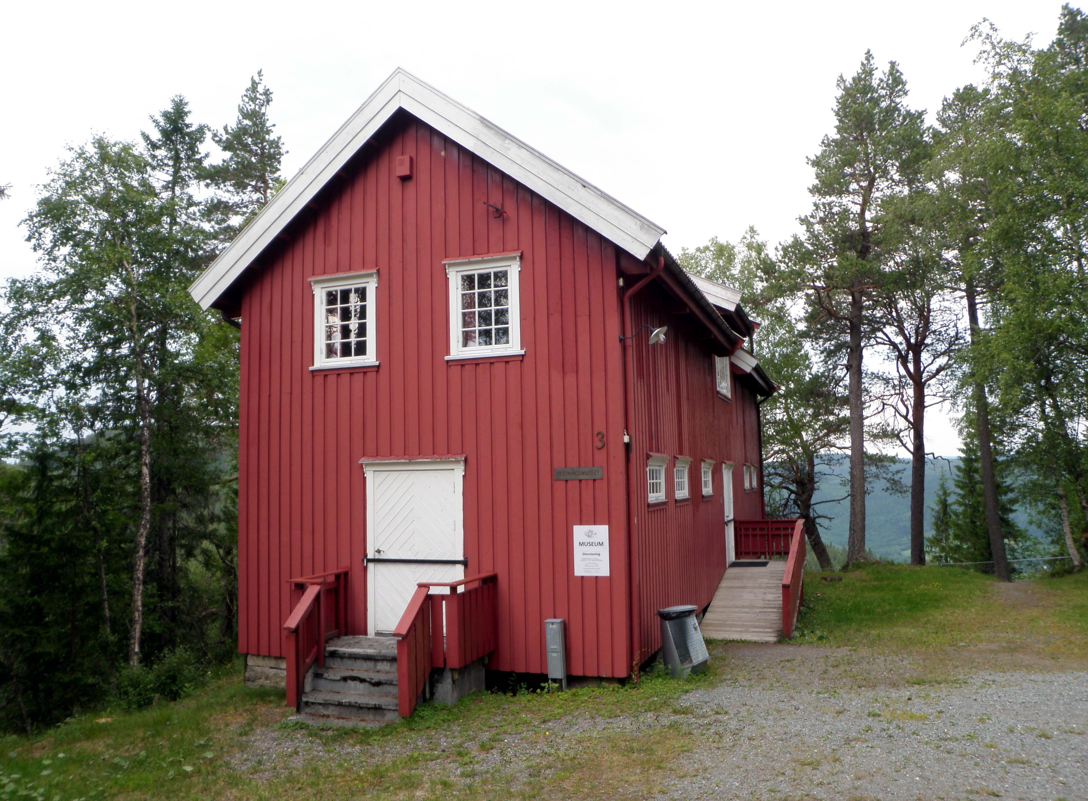 The building housing the fortress museum at Hegra Fortress, in Hegra, Norway. The buildings originally forming the military camp at Hegra Fortress were all destroyed in the Battle of Hegra Fortress in 1940, and the present buildings were raised post-war.